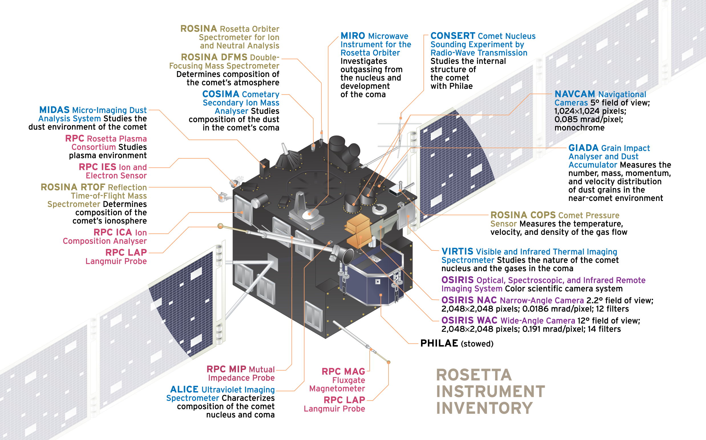 Diagram showing the instruments onboard the Rosetta spacecraft. The spacecraft carried 11 science instruments, some of them having multiple components, contributed by scientific institutes in ESA member states and the U.S.